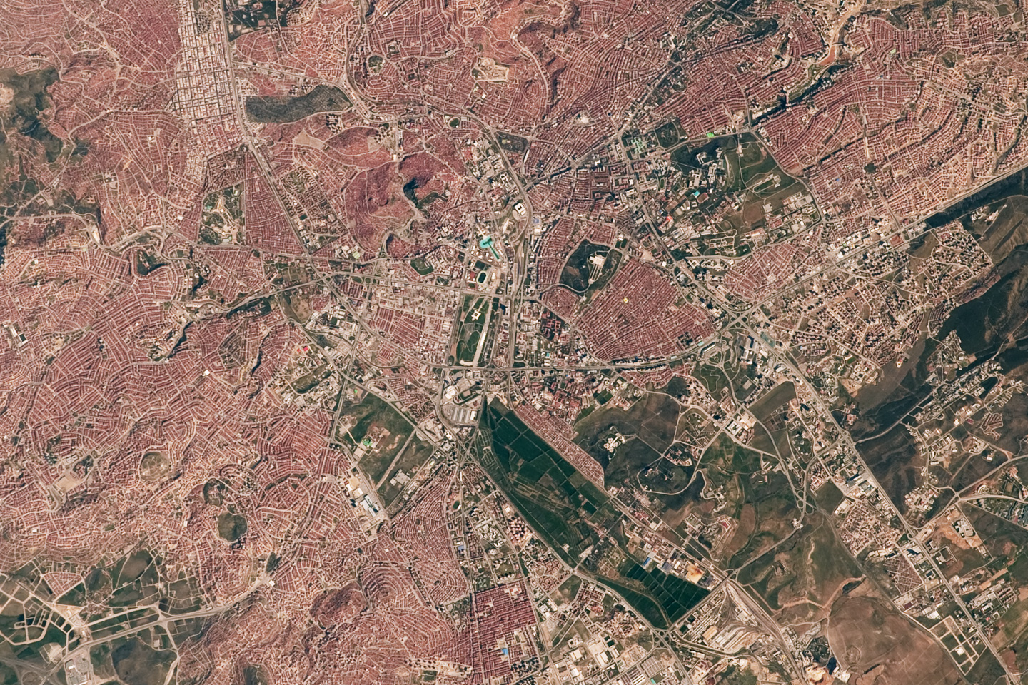 The central portion of the capital city of Turkey, Ankara, is featured in this astronaut photograph. Hill slopes around the city (image left and right) are fairly green due to spring rainfall. One of the most striking aspects of the urban area is the almost uniform use of red brick roofing tiles, which contrast with lighter-coloured roads; the contrast is particularly evident in the northern (image lower left) and southern (image upper right) portions of the city. Numerous parks are visible as green patches interspersed within the red-roofed urban region. A region of cultivated fields in the western portion of the city (image centre) is a recreational farming area known as the Atatürk Forest Farm and Zoo—an interesting example of intentional preservation of a former land use within an urban area. ISS Crew Earth Observations: ISS019-E-6499 Identification Mission ISS019 (Expedition 19) Roll E Frame 6499 Country or Geographic Name TURKEY Features ANKARA, ROADS, HILLS Center Point Latitude 39.9° N Center Point Longitude 32.9° E Camera Camera Tilt 13° Camera Focal Length 400 mm Camera Nikon D2Xs Film 4288 x 2848 pixel CMOS sensor, RGBG imager color filter. Quality Percentage of Cloud Cover 0-10% Nadir What is Nadir? Date 2009-04-11 Time 13:01:18 Nadir Point Latitude 39.3° N Nadir Point Longitude 33.3° E Nadir to Photo Center Direction Northwest Sun Azimuth 248° Spacecraft Altitude 188 nautical miles (348 km) Sun Elevation Angle 37° Orbit Number 3546